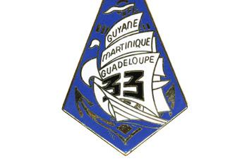 Regimental badge of the 33rd Marine Infantry Regiment (France).